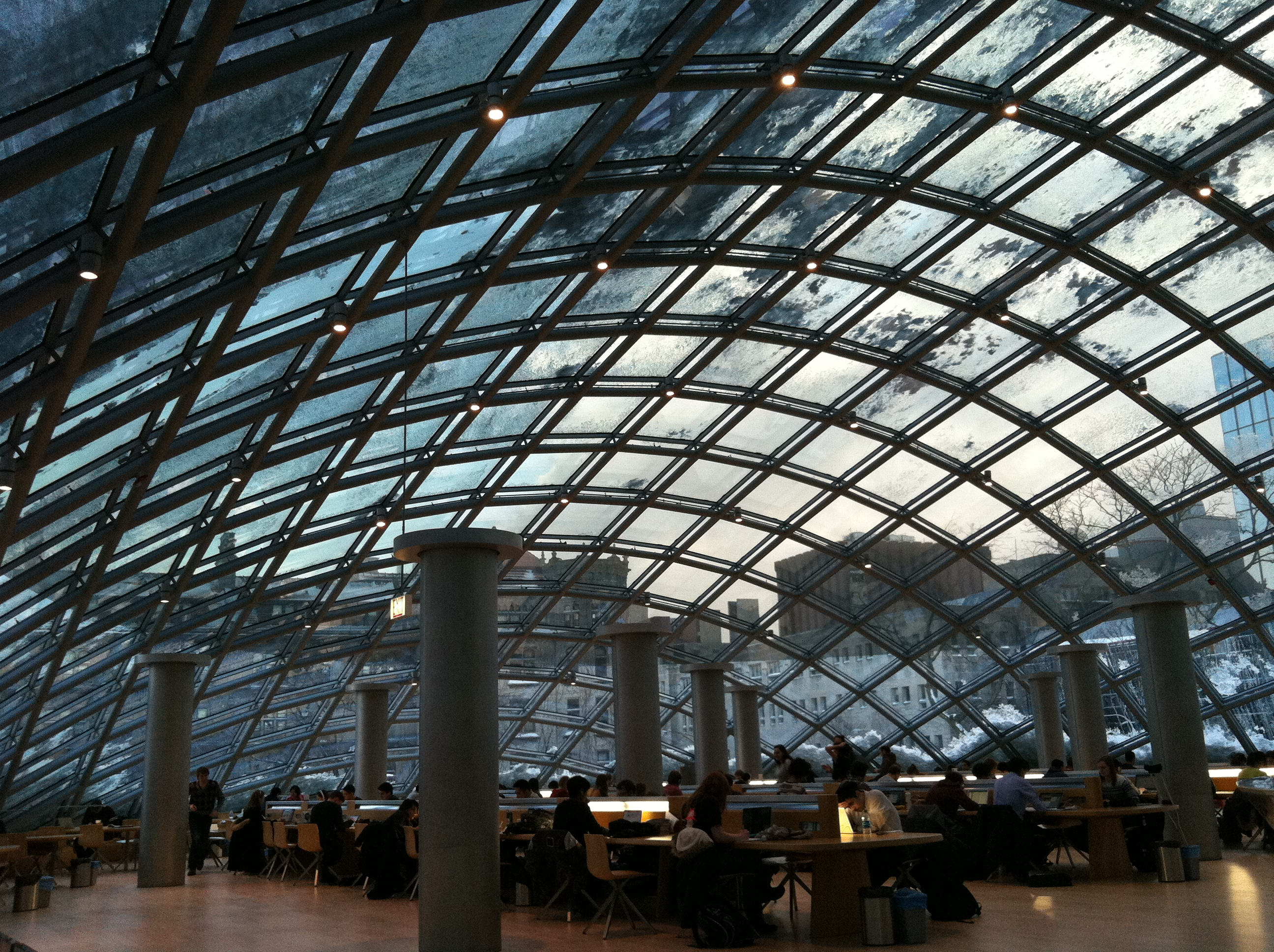 View from interior of glass-domed reading room of Joe and Rika Mansueto Library (University of Chicago) in winter.